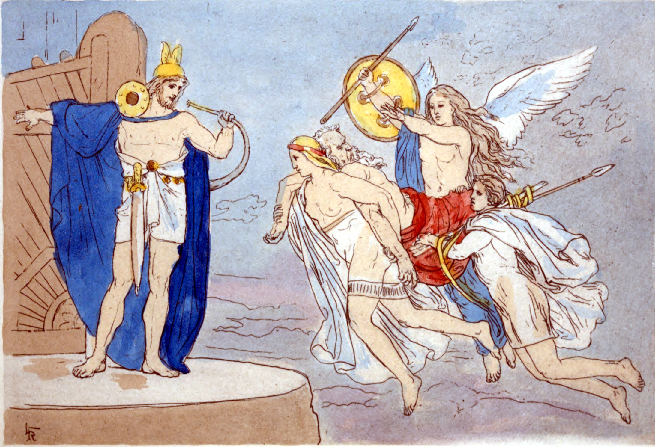 Three valkyries bring the body of a slain warrior to Valhalla, they are met by Heimdallr.